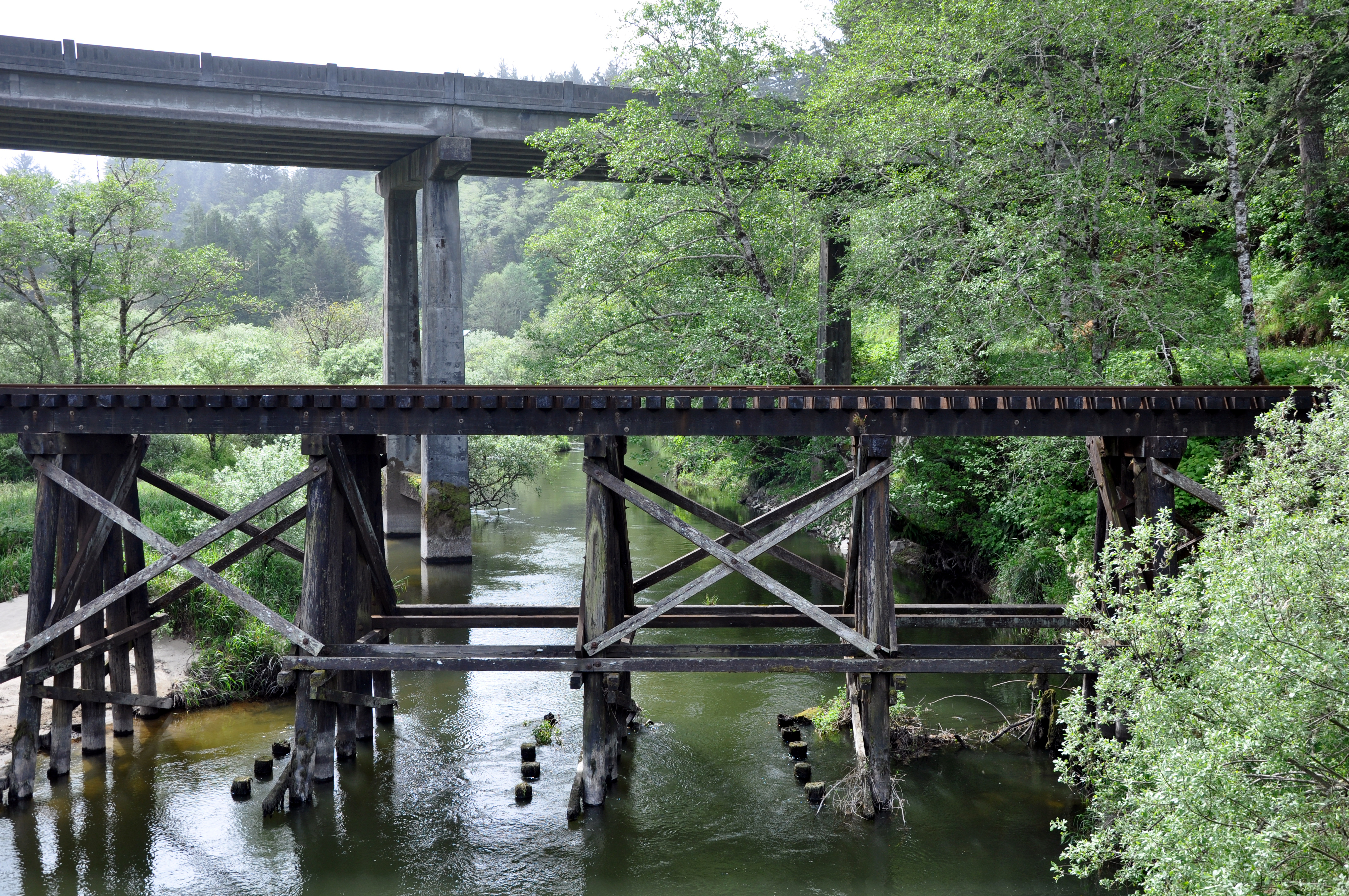 Tenmile Creek passes under a bridge carrying U.S. Route 101 and then a railway trestle. The creek, the outlet for nearby Tenmile Lake, continues west through sand dunes to the Pacific Ocean. The view is looking upstream from a third bridge that carries Spinreel Road (Wildwood Drive) over the creek.